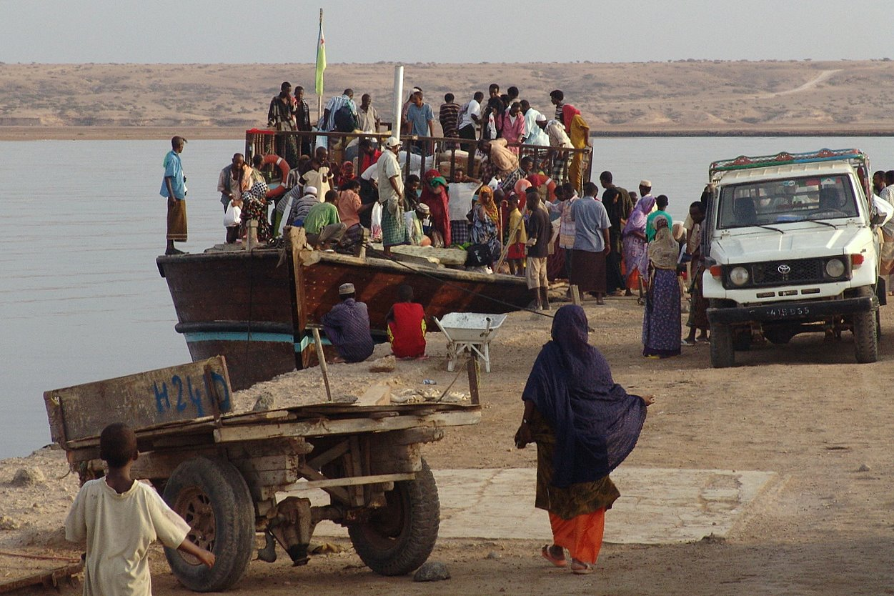 Ferry from Djibouti city arriving in Obock. Image taken by Charles Fred on flickr. The creator has granted GFDL licensing and permission for use in the wikimedia project.